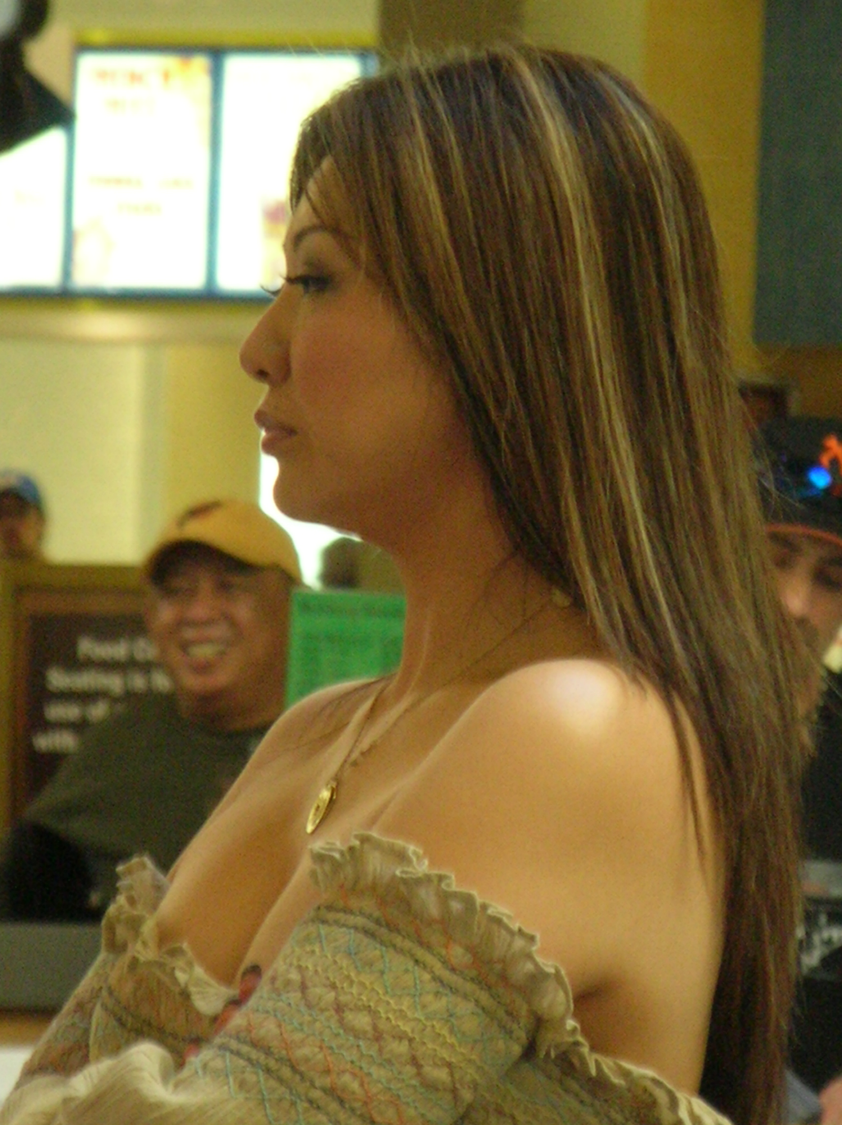 Korean-American model Esther Hwang at an appearance at Serramonte Center, in Daly City, California.